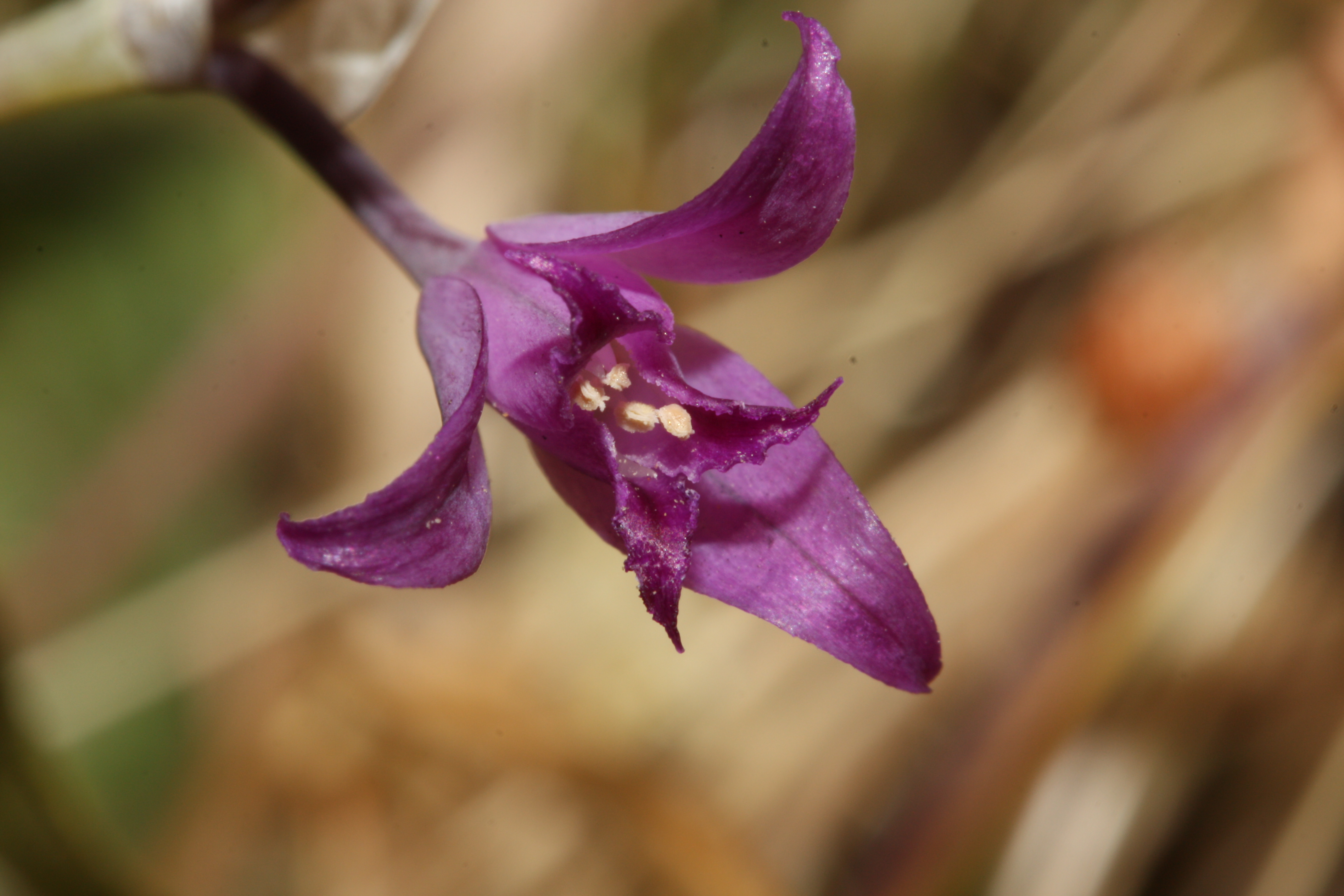 Taper-tip Onion